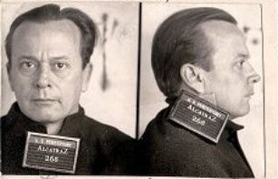 Arthur "Doc" Barker, was an American criminal, son of Ma Barker and a member of the Barker-Karpis gang.